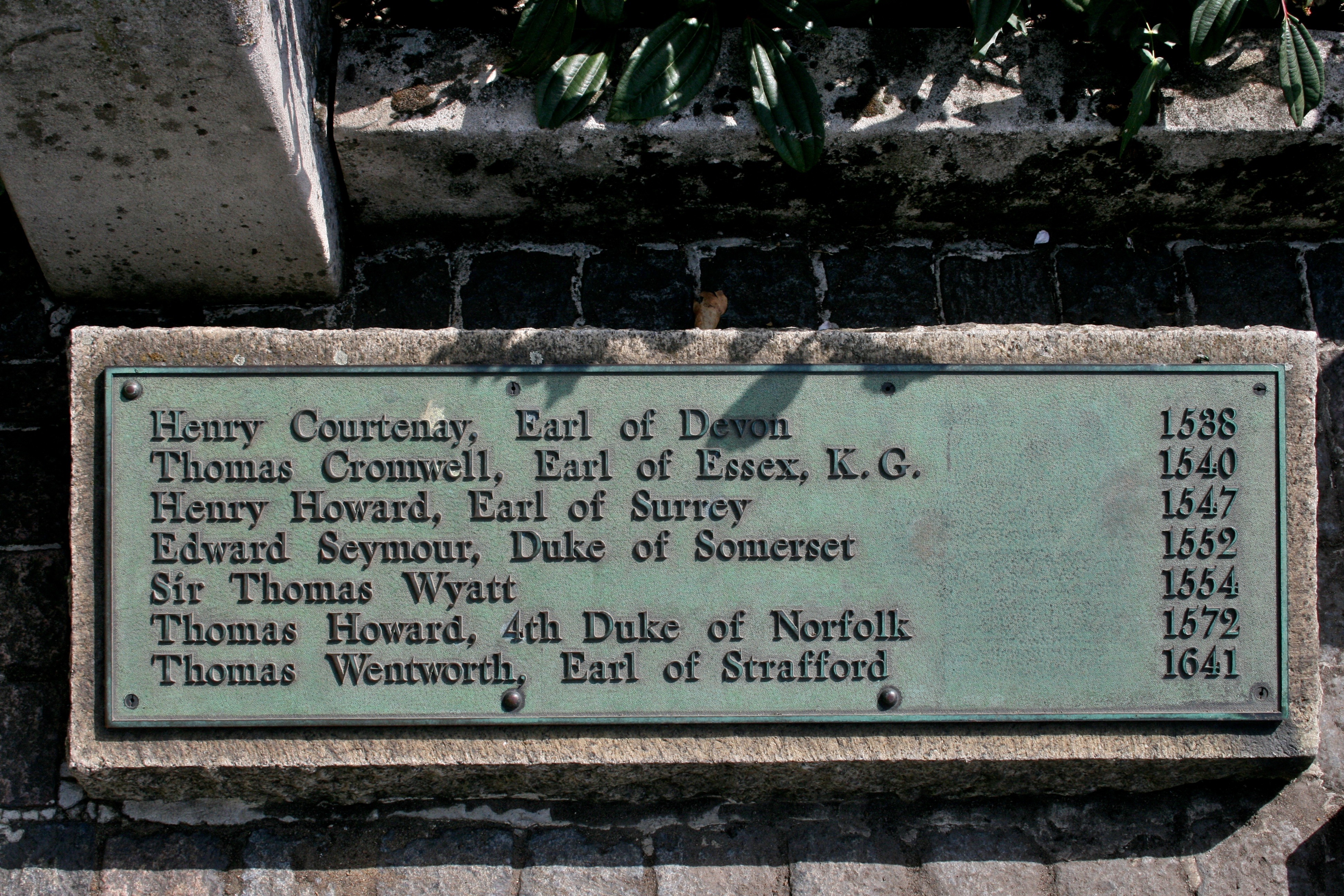 Sign at the Tower Hill scaffold location. Sign reads: "Henry Courtenay, Earl of Devon 1538 Thomas Cromwell, Earl of Esex, K. G. 1540 Hency Howard, Early of Surrey 1547 Edward Seymour, Duke of Somerset 1552 Sir Thomas Wyatt 1554 Thomas Howard, 4th Duke of Norfolk 1572 Thomas Wentworth, Earl of Strafford 1641"